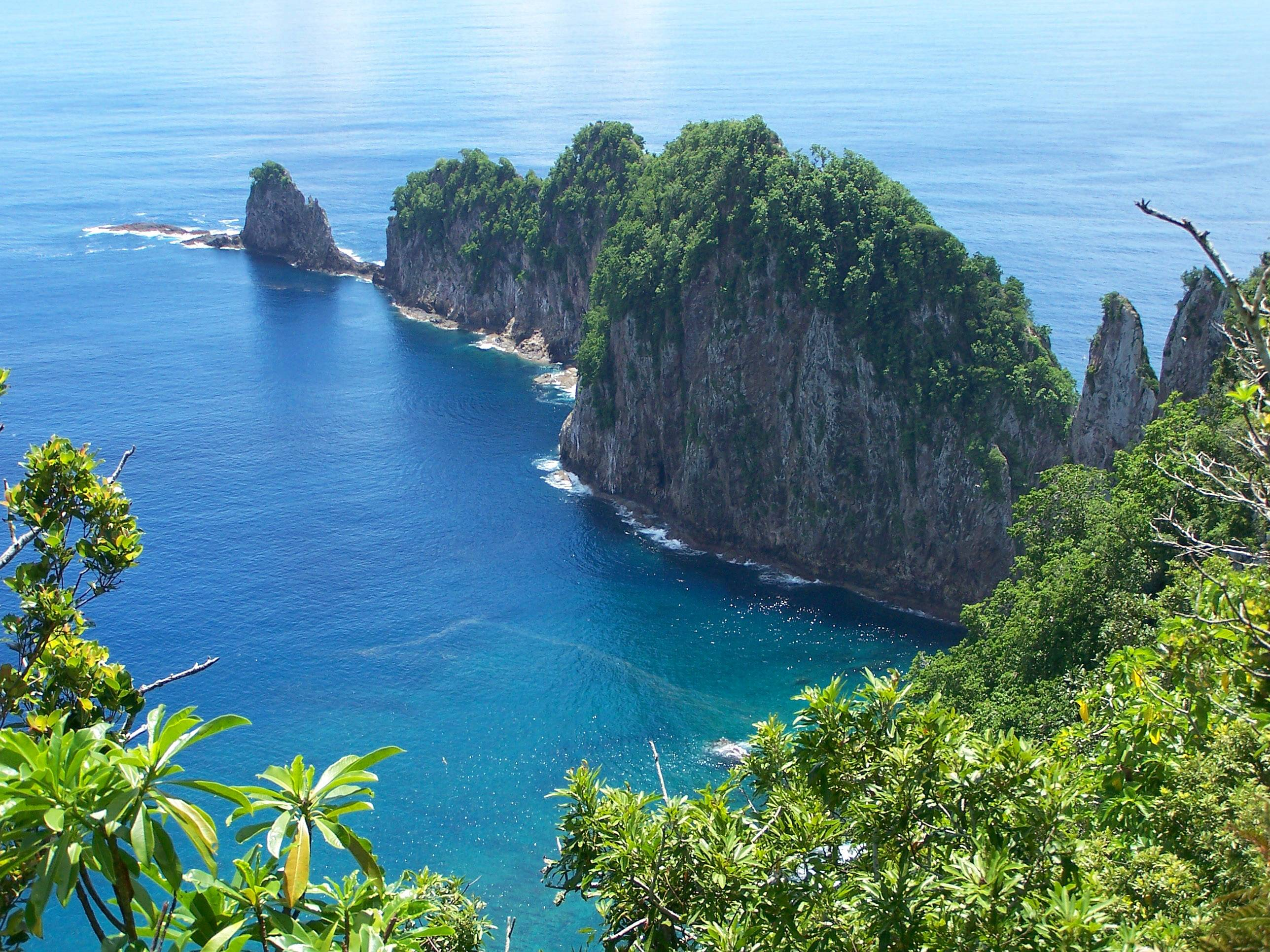 Pola Islands just off the coast of Tutuila Island, American Samoa.